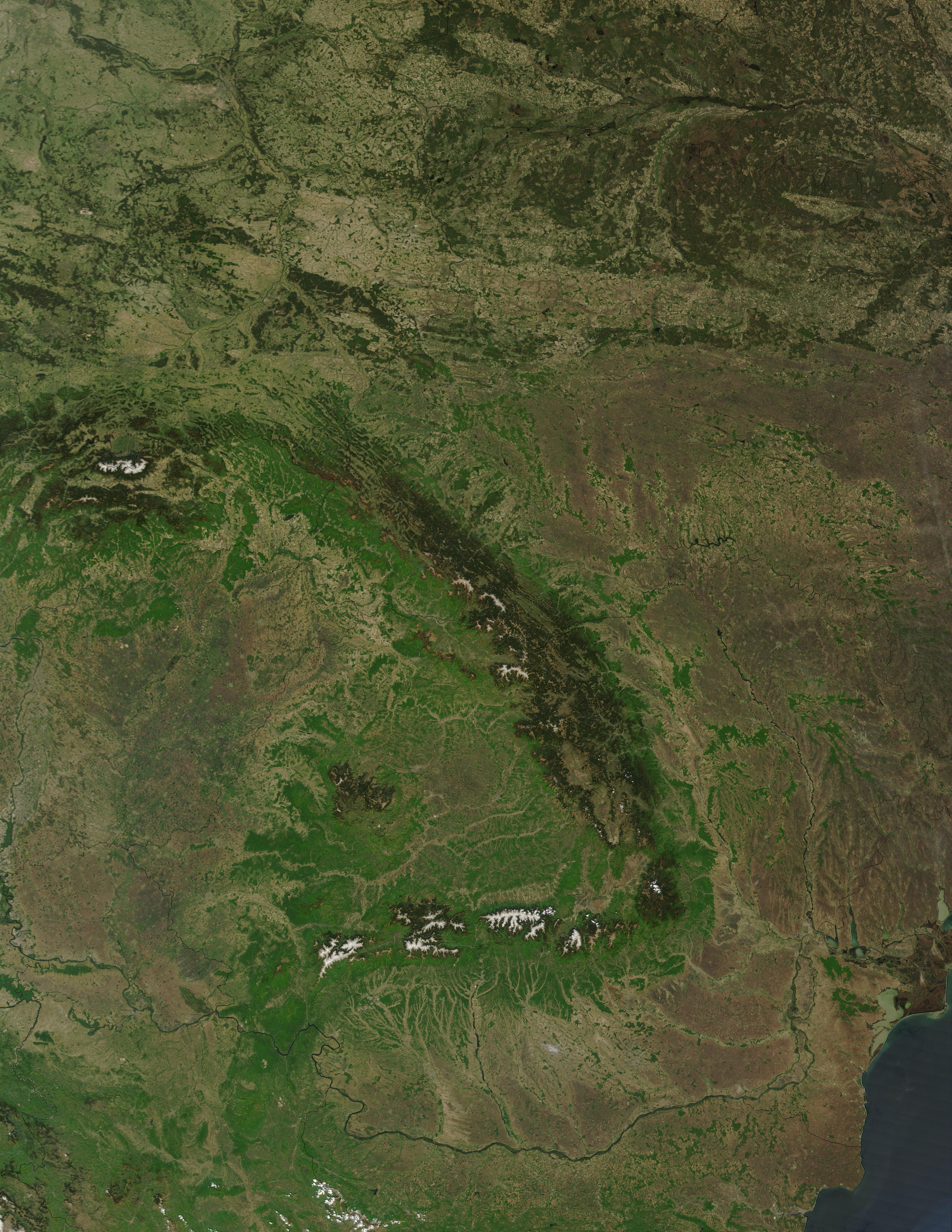 Carpathian Mountains satellite image